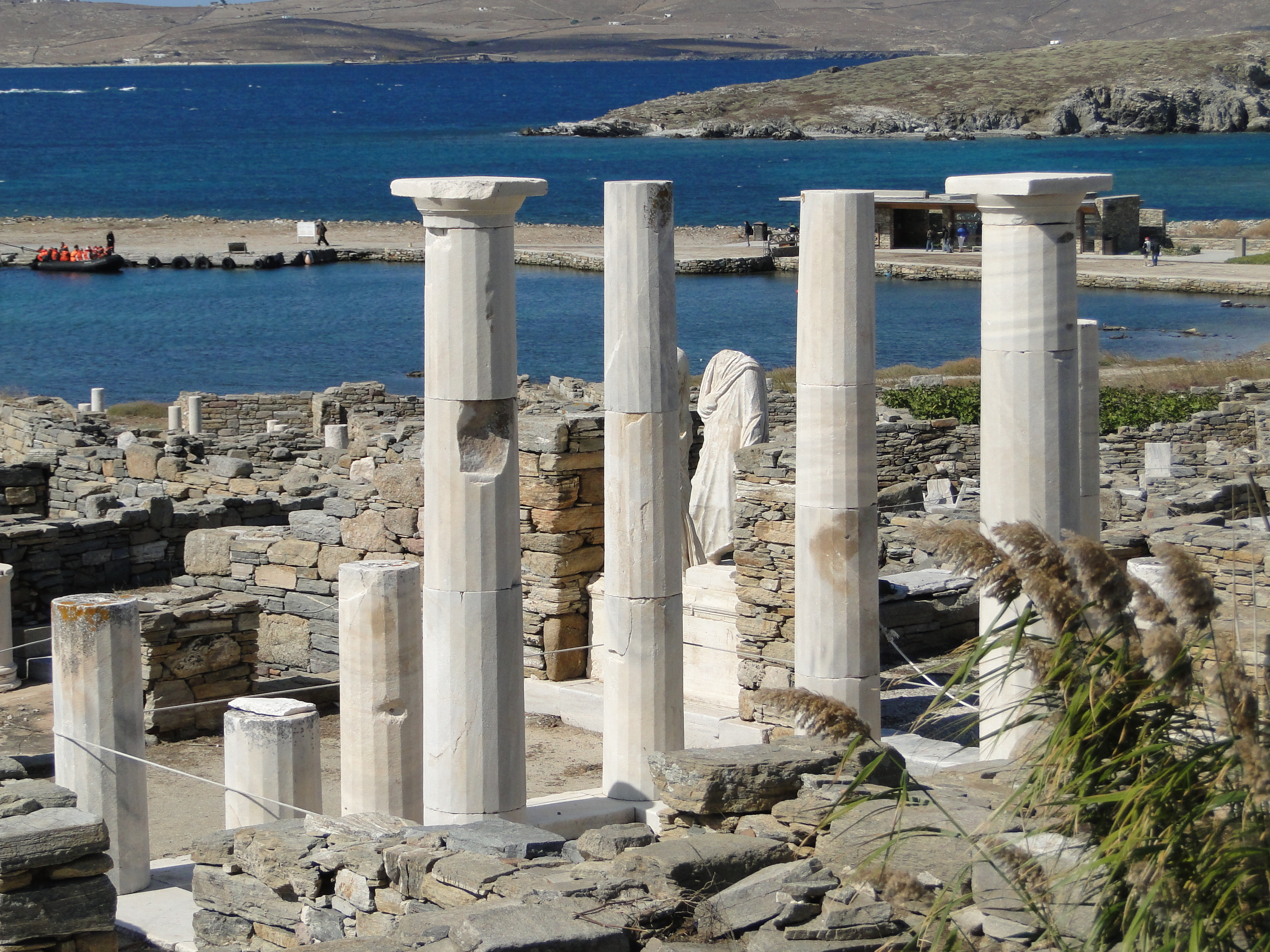 House of Cleopatra and Dioskourides in Delos, Greece